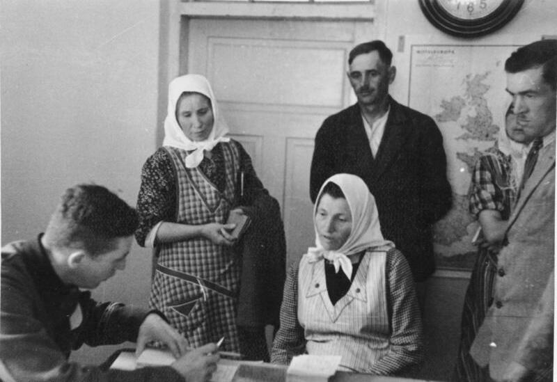 Chełm countryside, Kamień. Registrating farmers of German descent to resettlement.